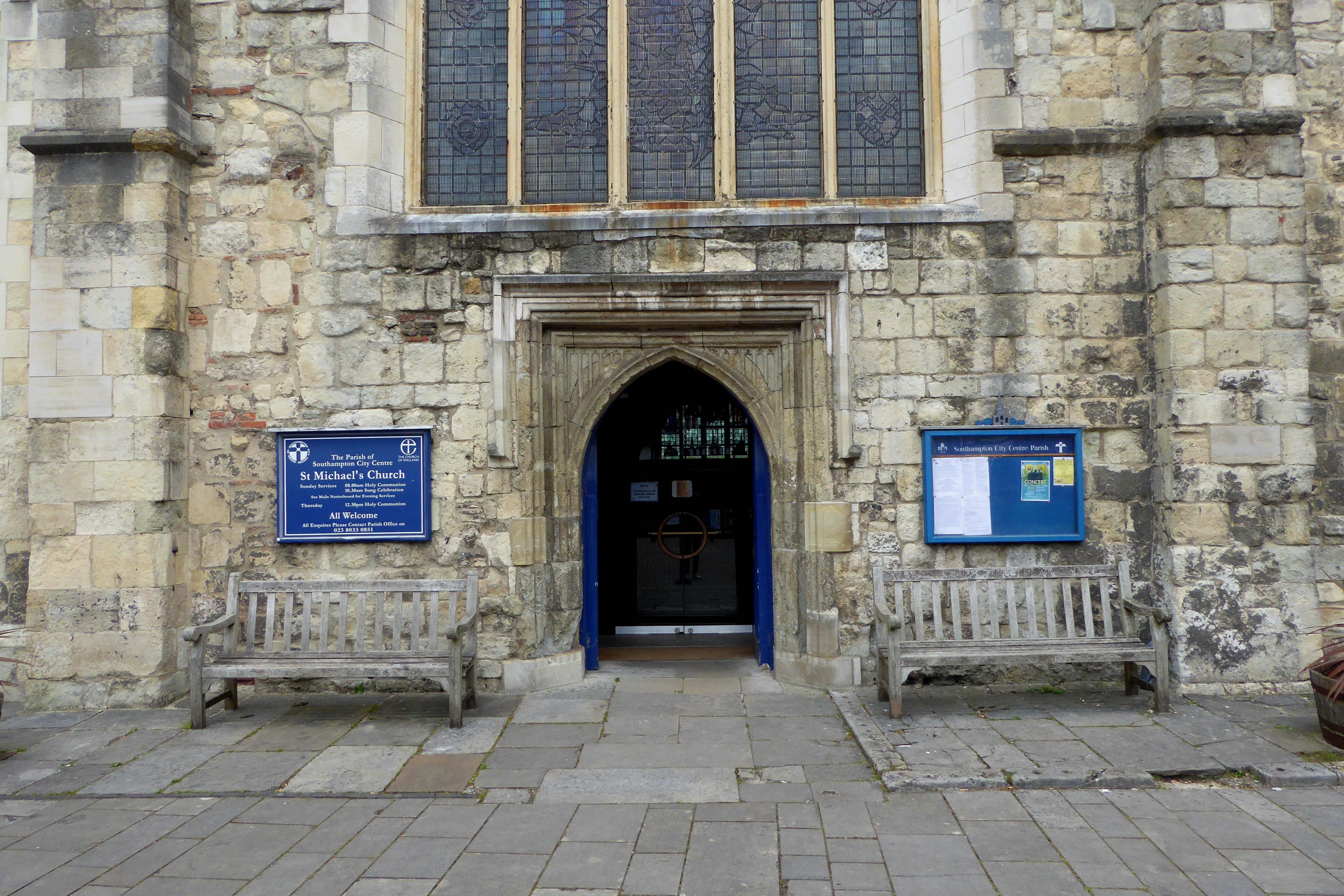 Entrance to St Michael's Church, Southampton.